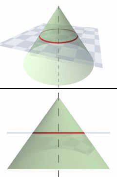 Circulal conical surface - the circular surface is the intersection of a solid cone and a plane parallel to the face of that cone